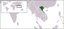 The location of North Vietnam